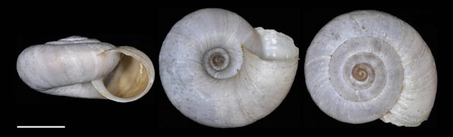 Composition of the 3 main views of Xerogyra spadae. Locality: Gran Sasso, Campo Pericoli. L'Aquila (Italy)